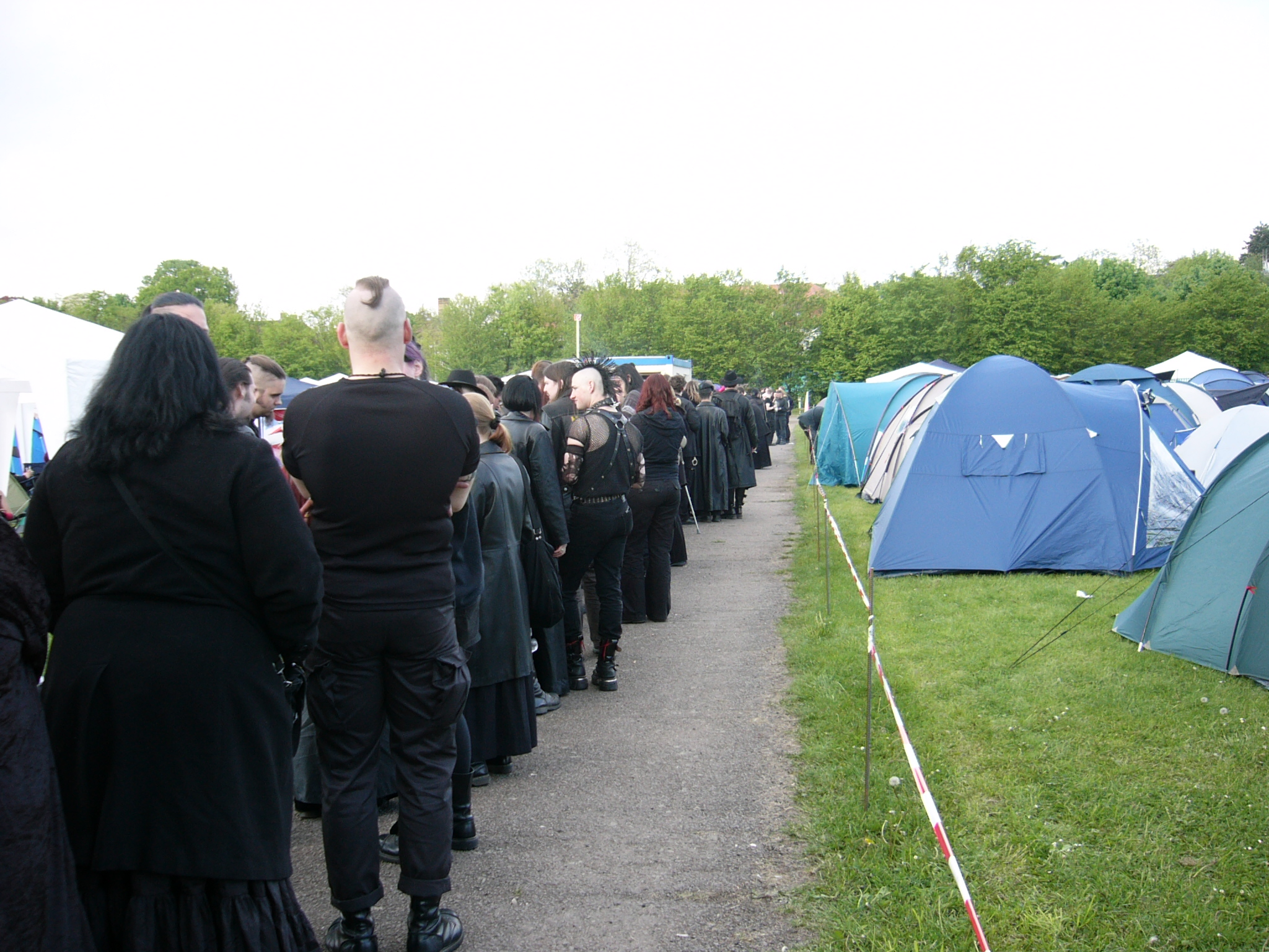 Line in Agra Camping Area to get festival wristbands for Wave Gotik Treffen 14 (May 2005).